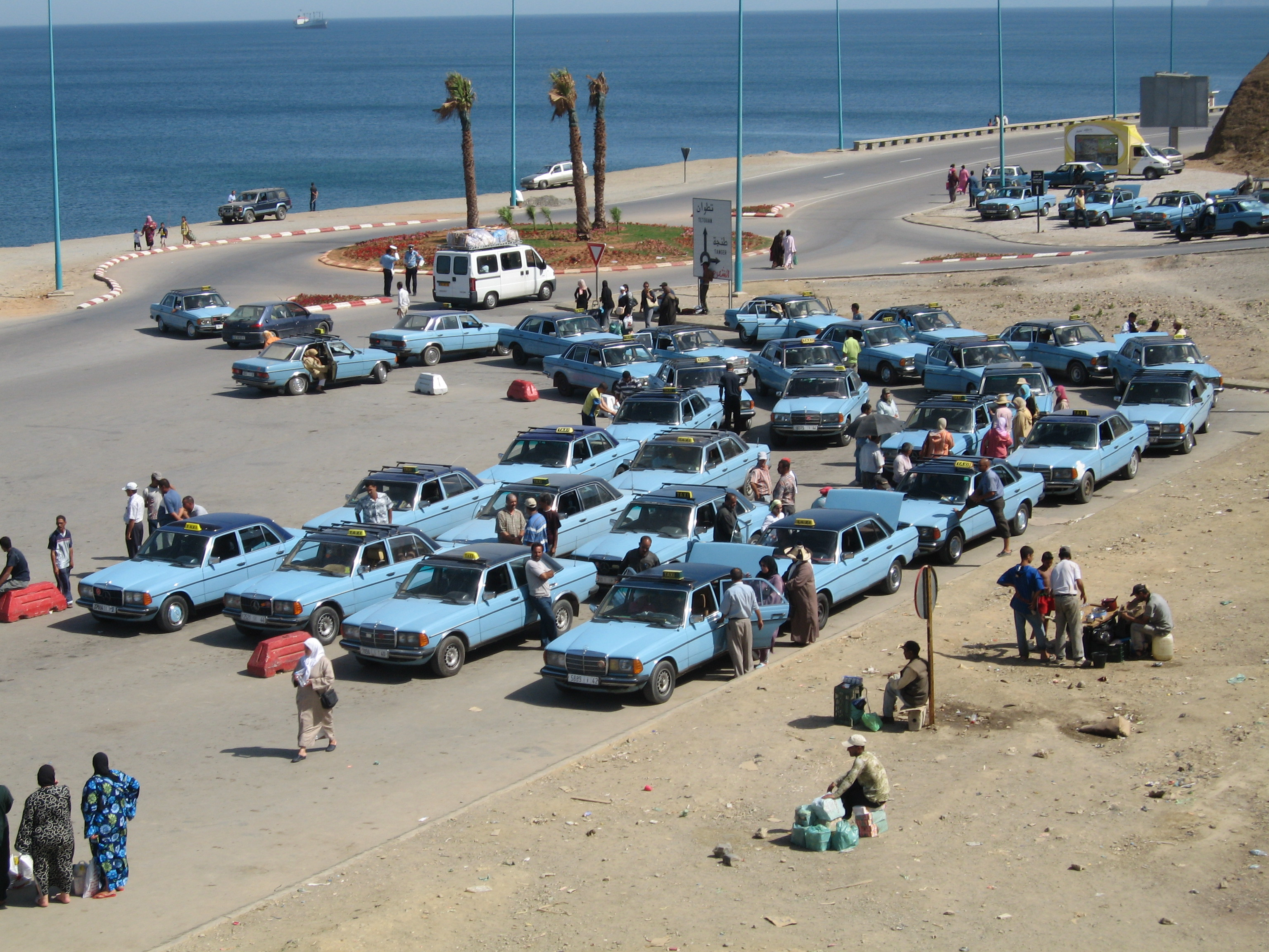 Moroccan taxis in the border of Spain near Ceuta